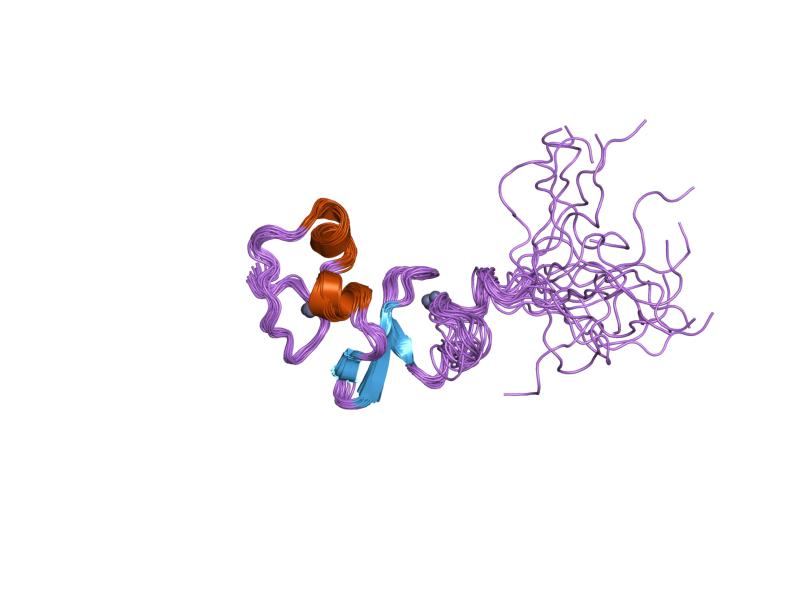 Cartoon representation of the molecular structure of protein registered with 1ul4 code.